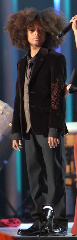 Jaden Smith at The Nobel Peace Prize Concert 2009